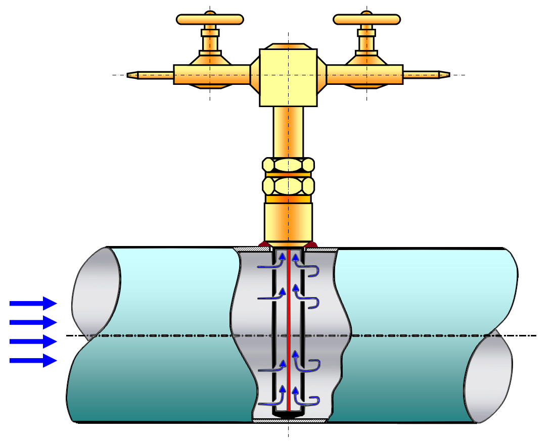 Pitotmeter cylinder flowmeter with 4 pairs of holes, Tchebychev method. The cylinder makes the traverse. The two pressures (upstream and downstream) are averaged.